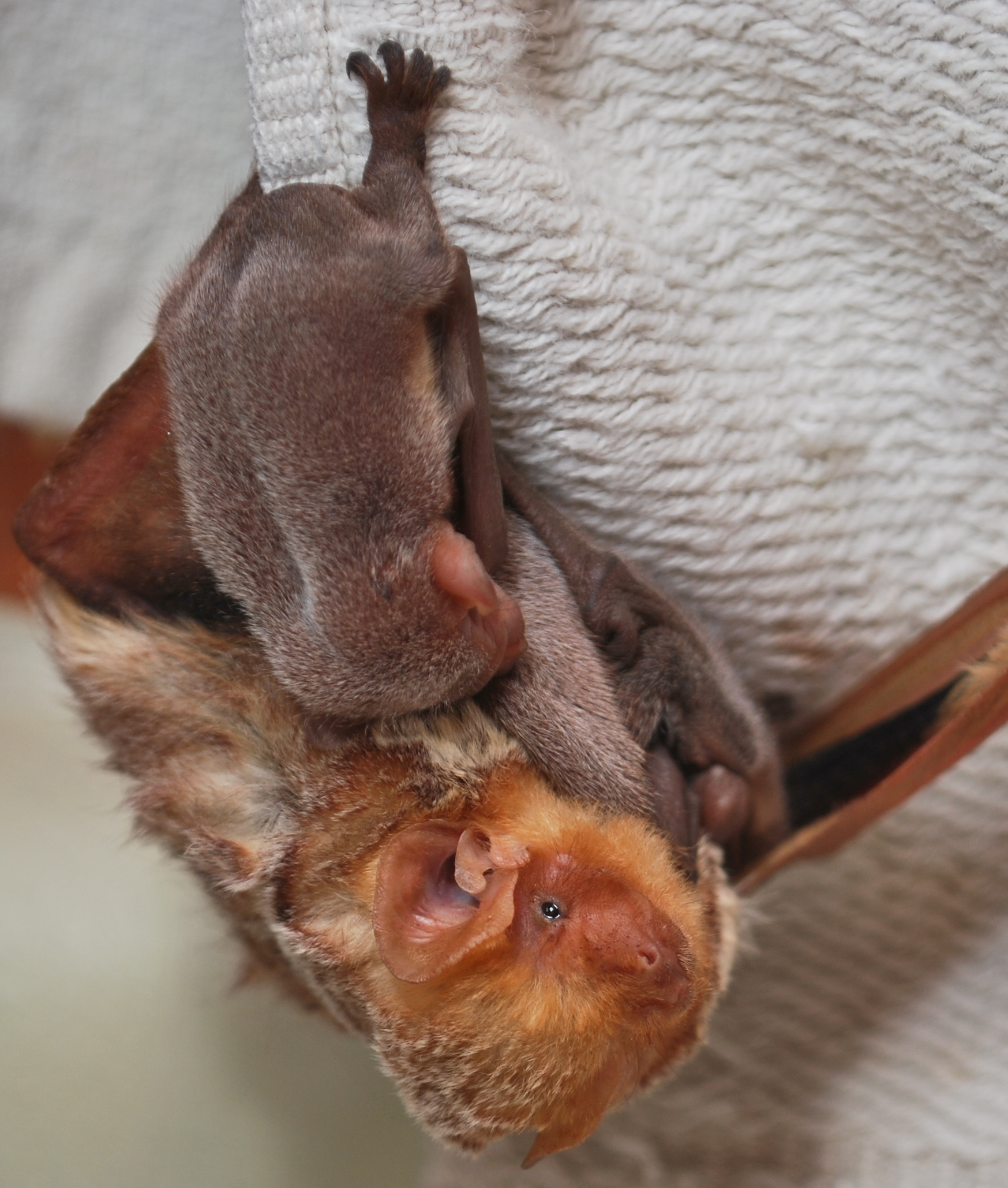 Lasiurus borealis with pups